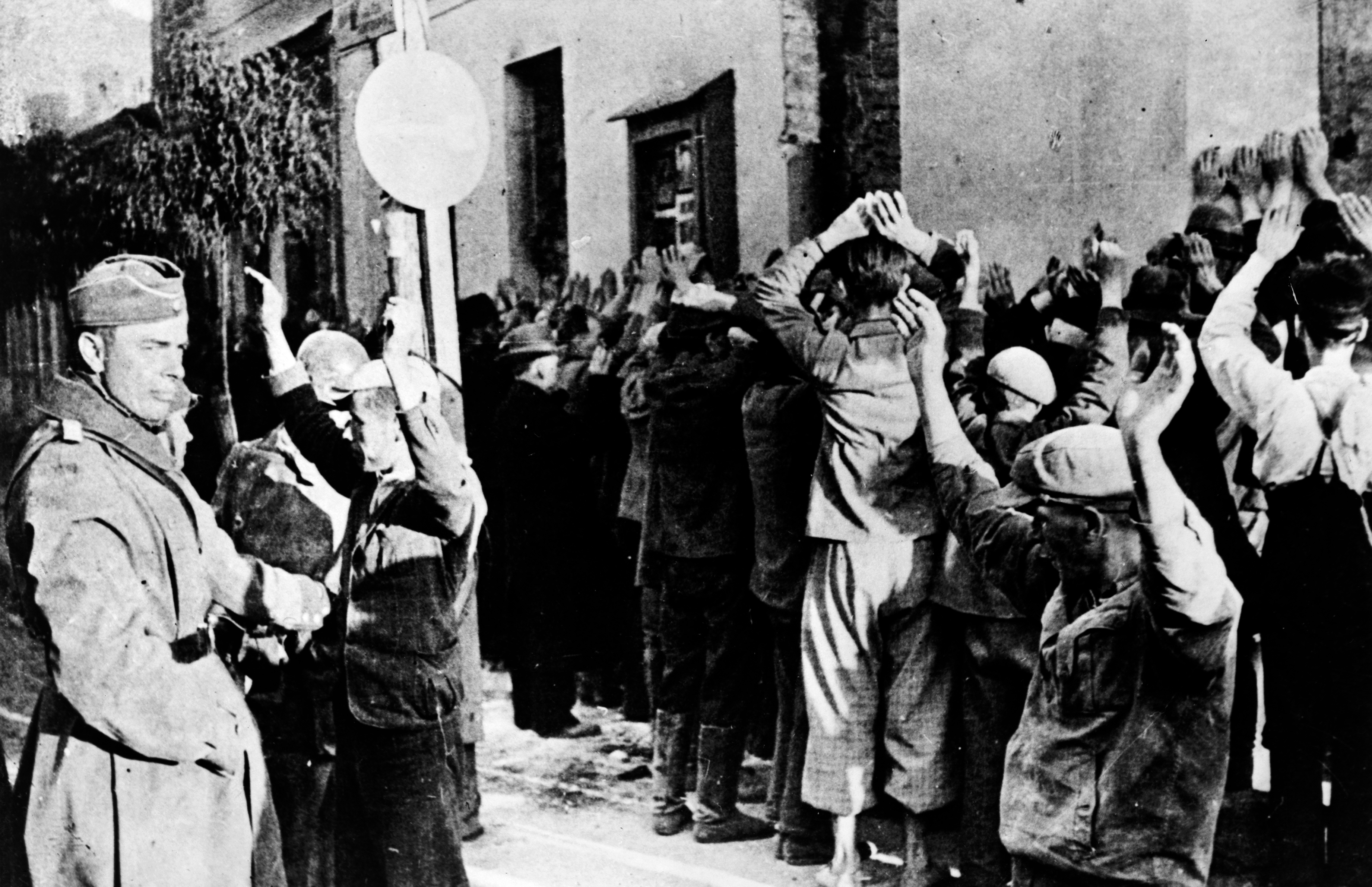 WARSAW, POLAND—Armed Nazis search Jews and line them up against a wall during a round-up in Warsaw's Ghetto. Countless tales of atrocities committed against the Jews have come out of Nazi-occupied Poland. Photo was found on the body of a German officer, evidently a participant in this round-up, who was killed before Moscow.